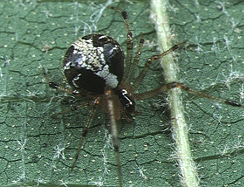 female Nipponidion okinawense from Okinawa.